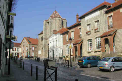 La Queue en Brie (Val de Marne, France) : old village after renovation.